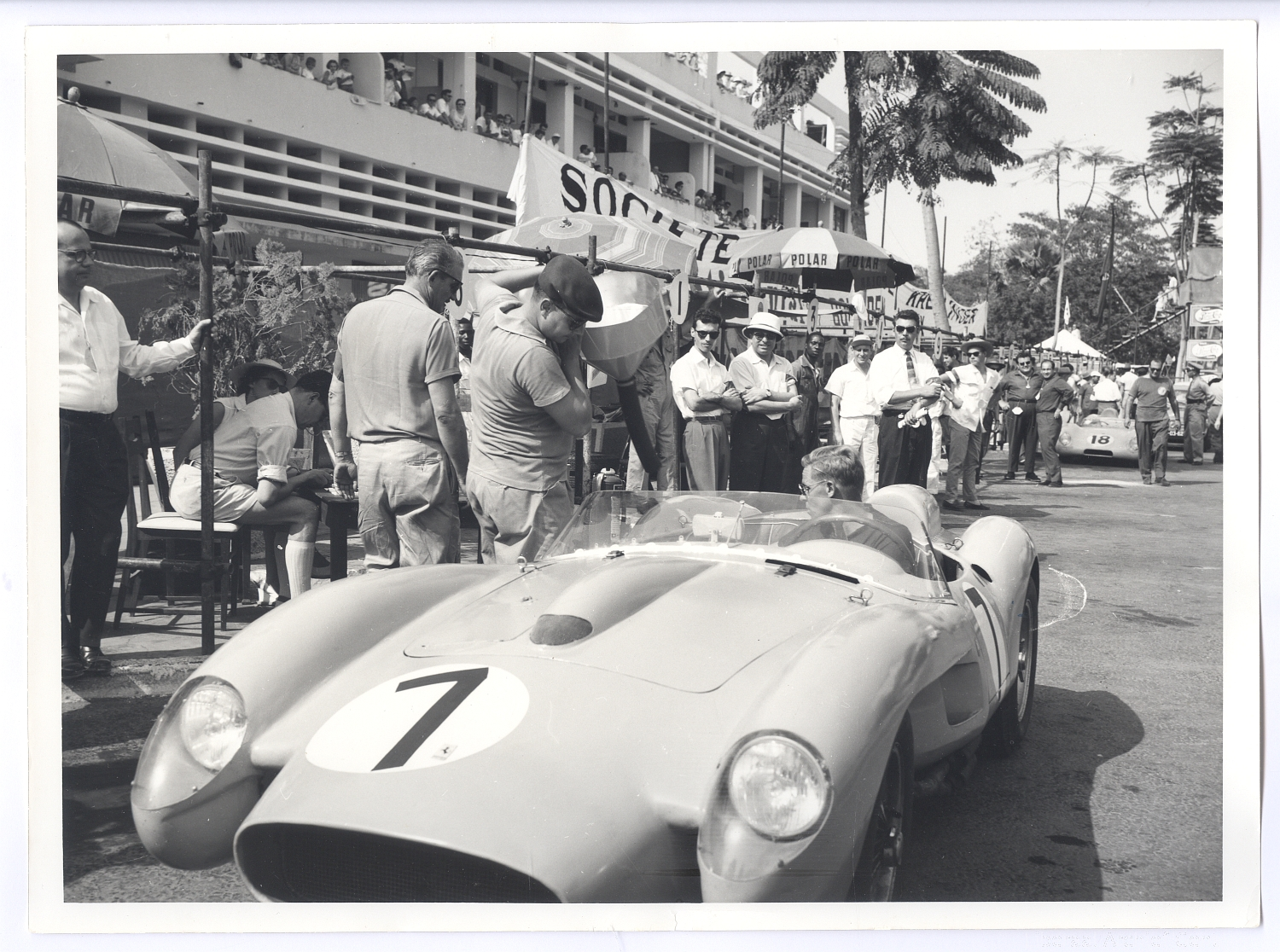 Paul Frere in a Ferrari 250 Testa Rossa #0736TR in GP Leopolvvile, 1958. Images from the exhibition Archief Sportief! in the Liberaal Archief in Ghent, September 16, 2016 through January 13, 2017